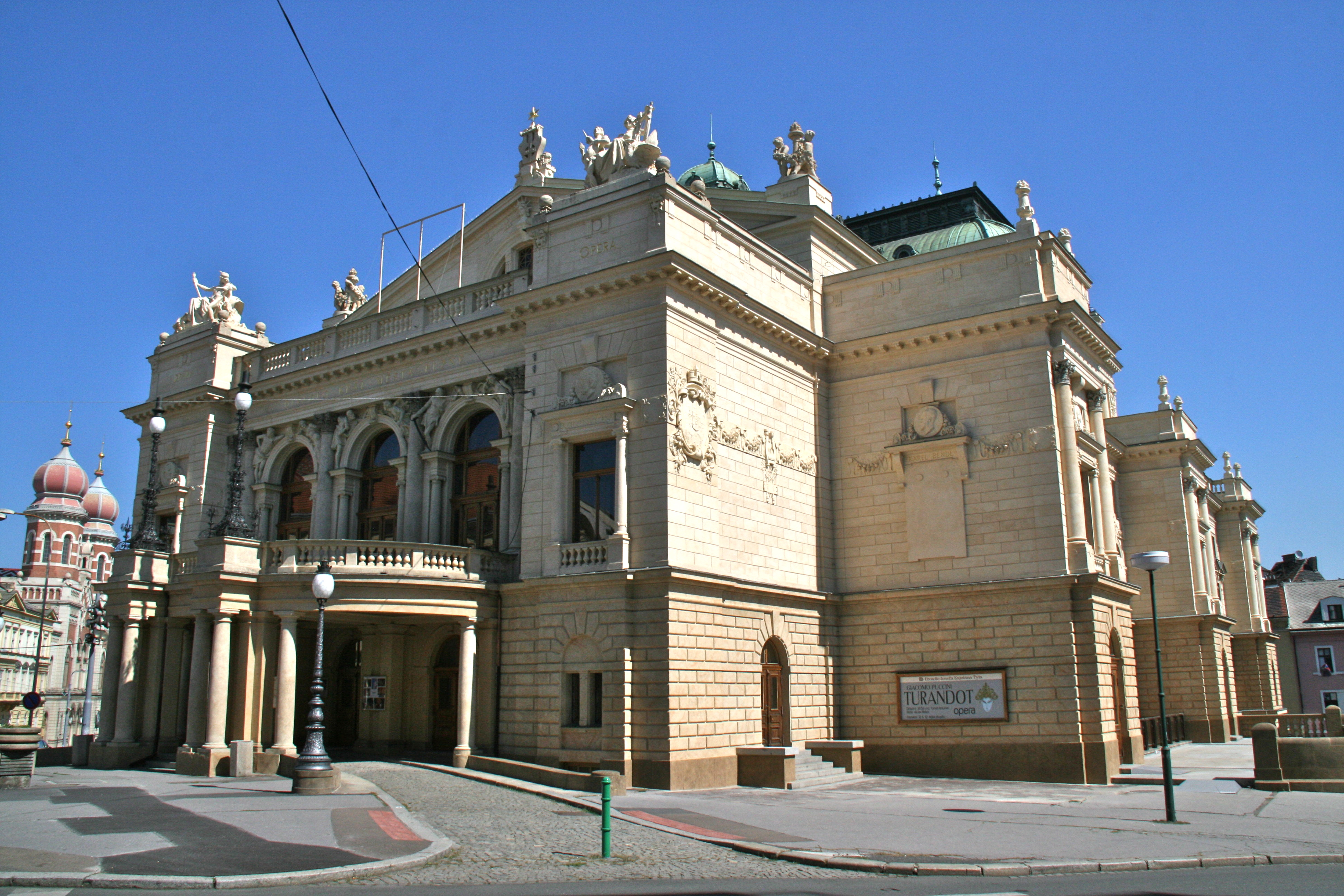 J. K. Tyl Theatre